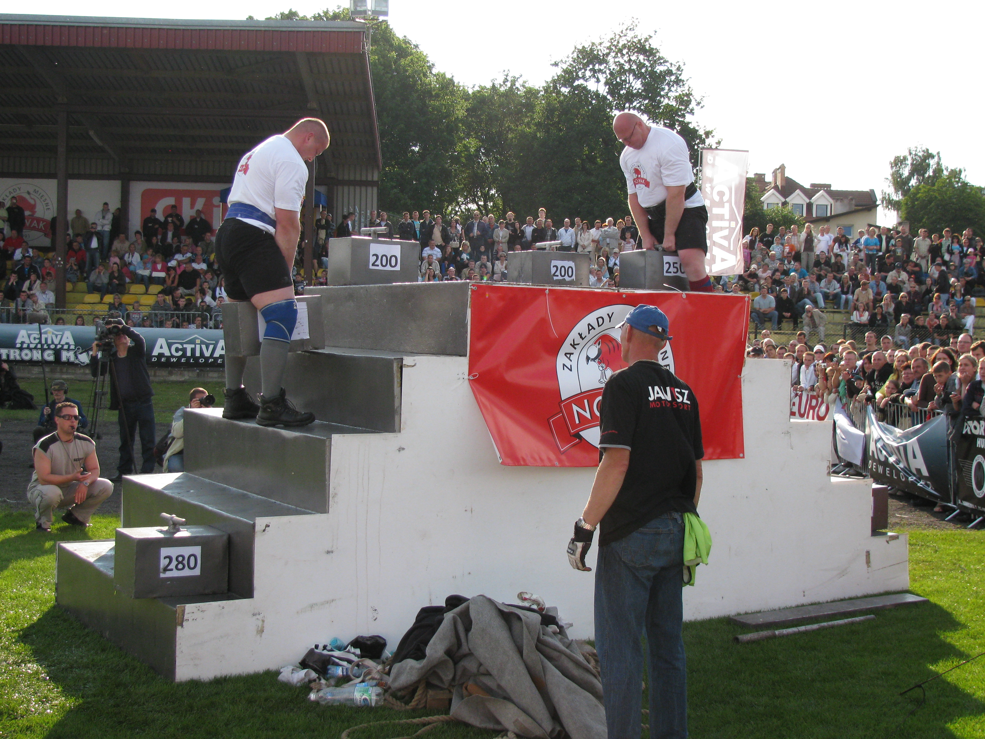 Strongman event: Power Stairs